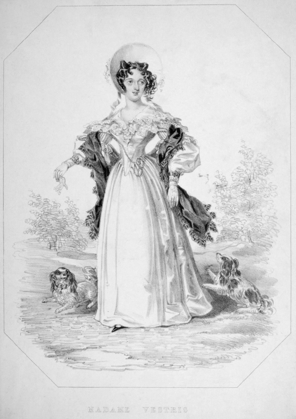 Lucia Elizabeth (née Bartolozzi) Vestris (1797-1856) lithograph 36.5 x 26.4 cm circa 1831-1835